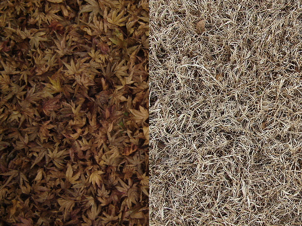 Naural texture in images